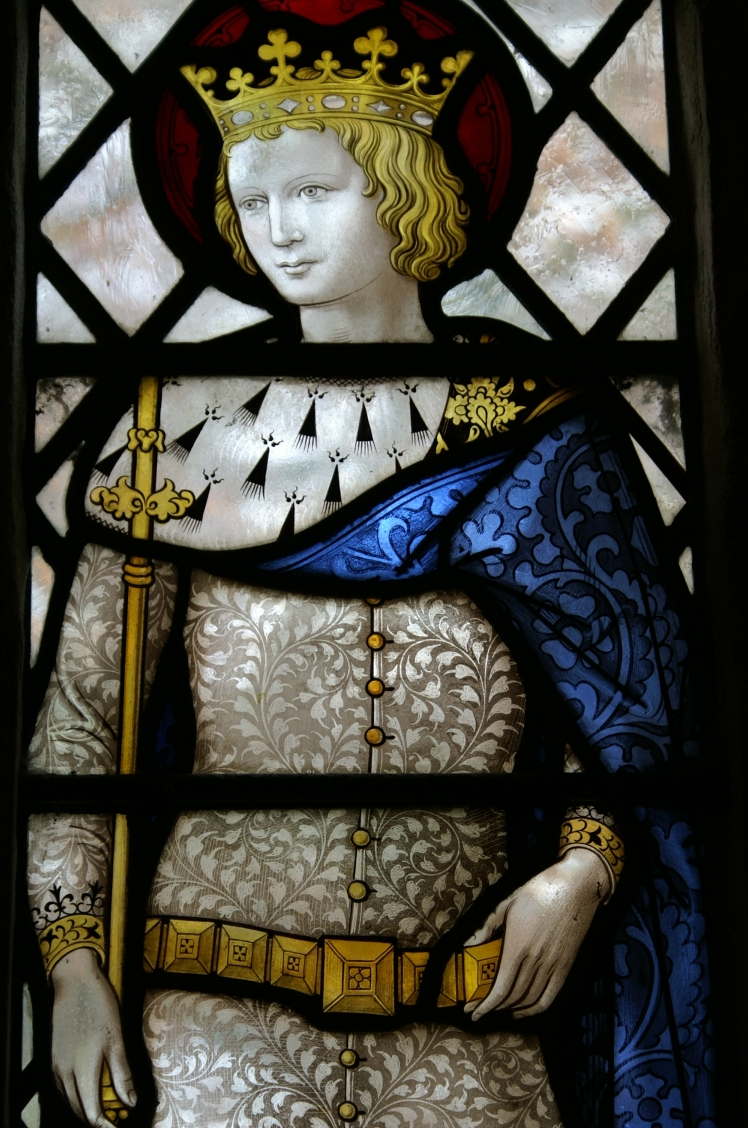 Church of England parish church of St Nicholas, Ickford, Buckinghamshire: stained glass window depicting Saint Edward the Confessor.